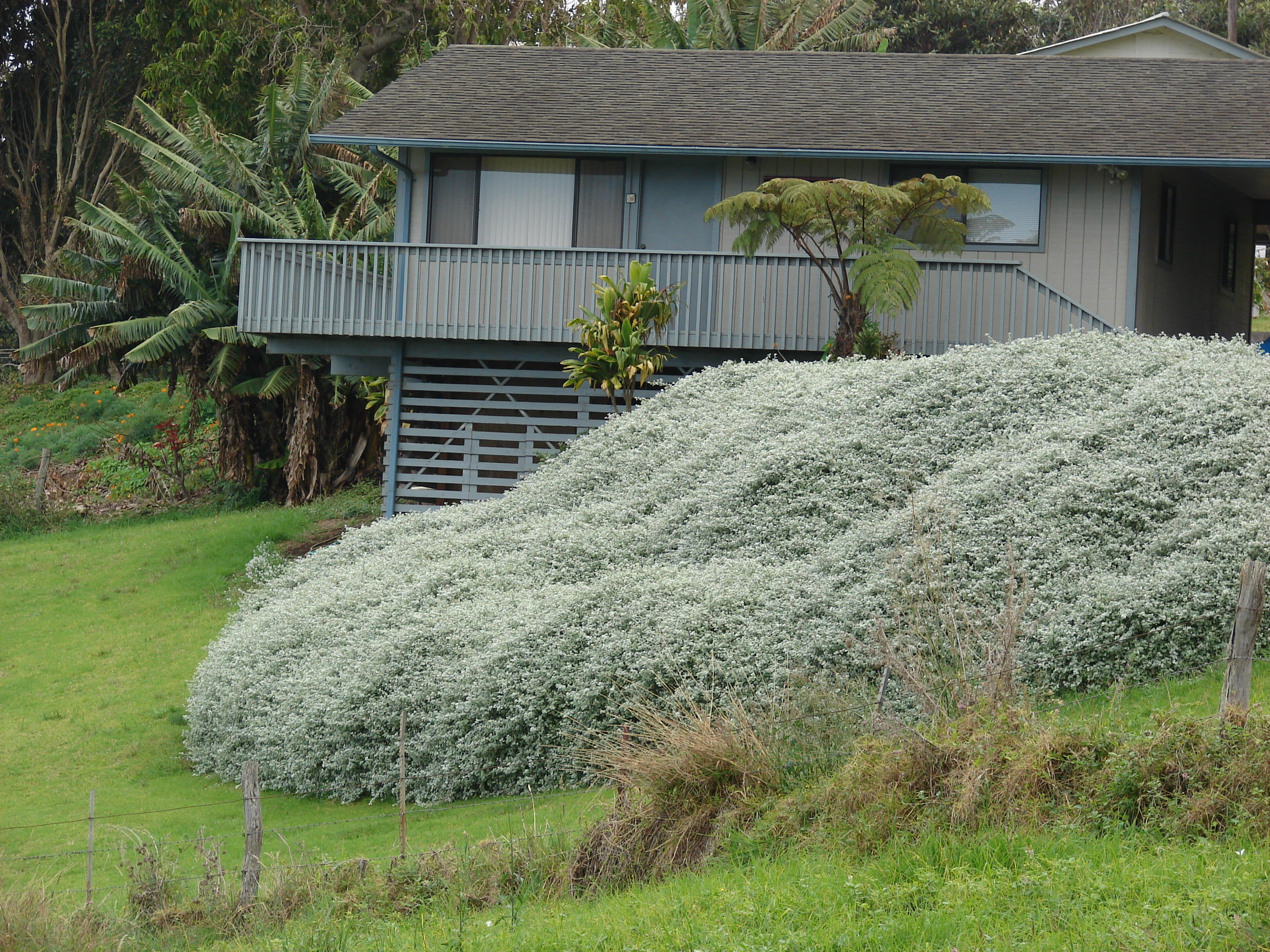 Helichrysum petiolare (habit). Location: Maui, Kula